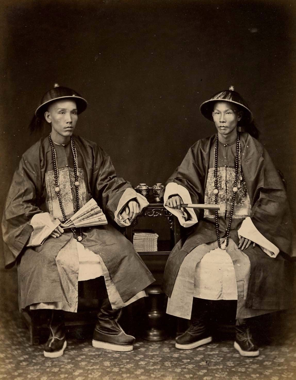 Two Officials